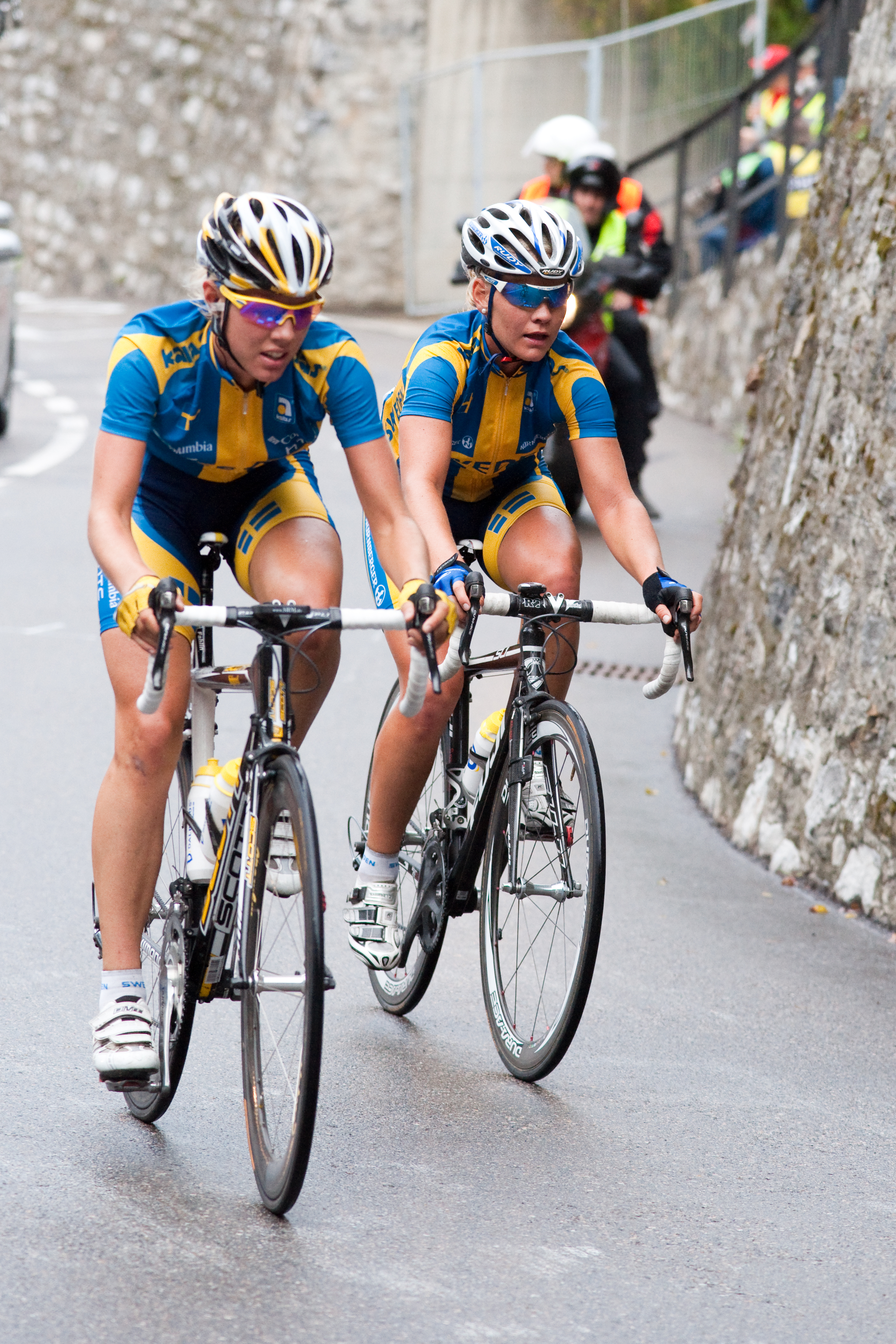 Emilia Fahlin (left) and Marie Lindberg (right) during the 2009 UCI Road World Championships in Mendrisio, Switzerland.